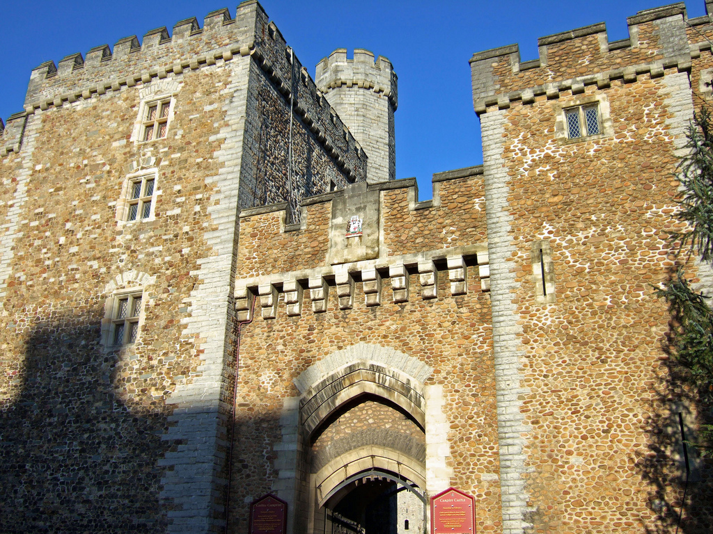 Cardiff Castle South Gate